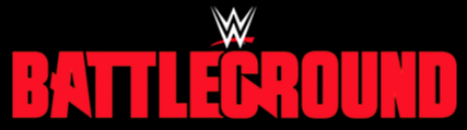 This is WWE Battleground's official logo, retrieved off for use on Wikipedia.